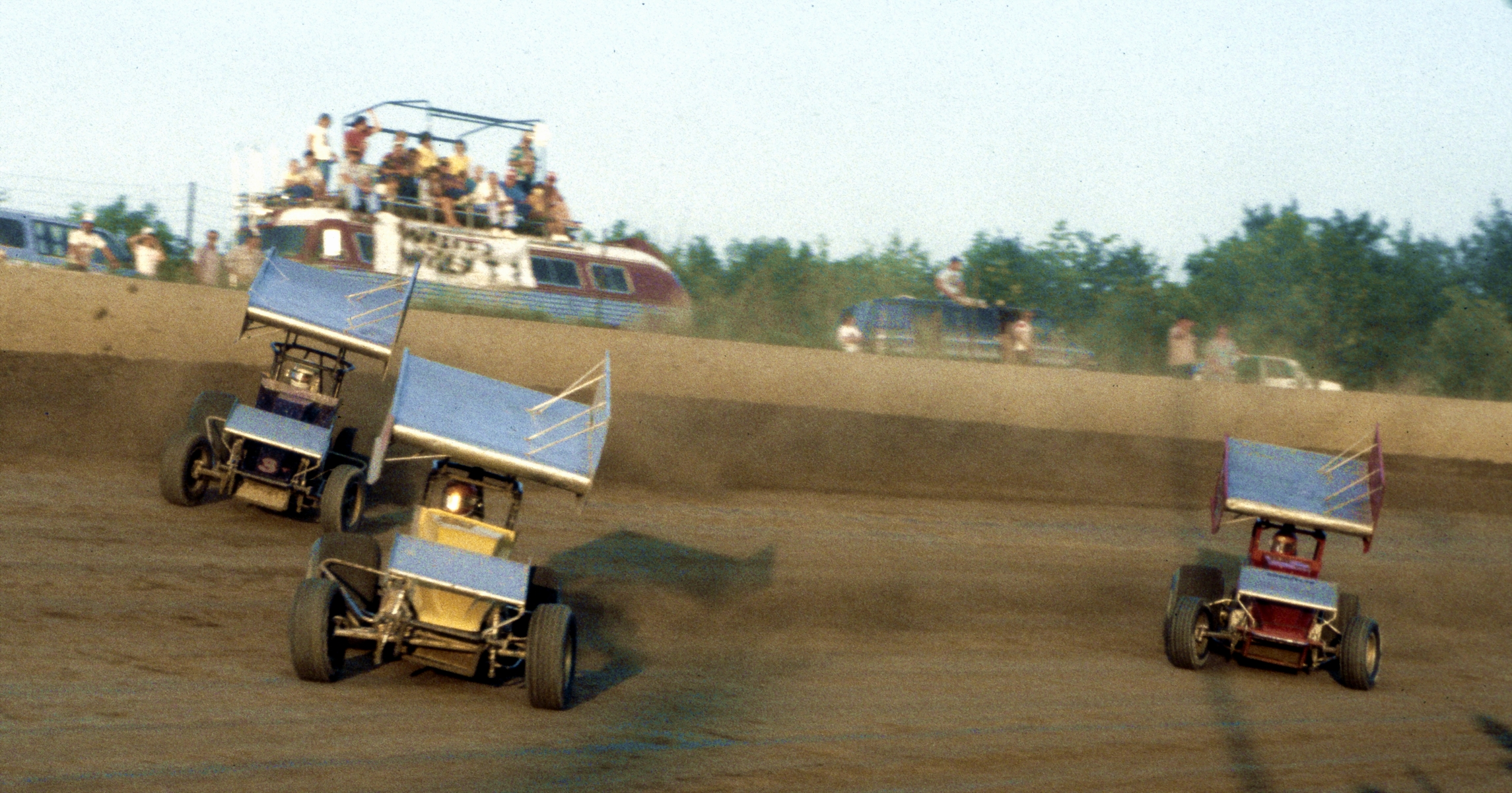 Sprint car racing in a turn at Eldora Speedway in 1986